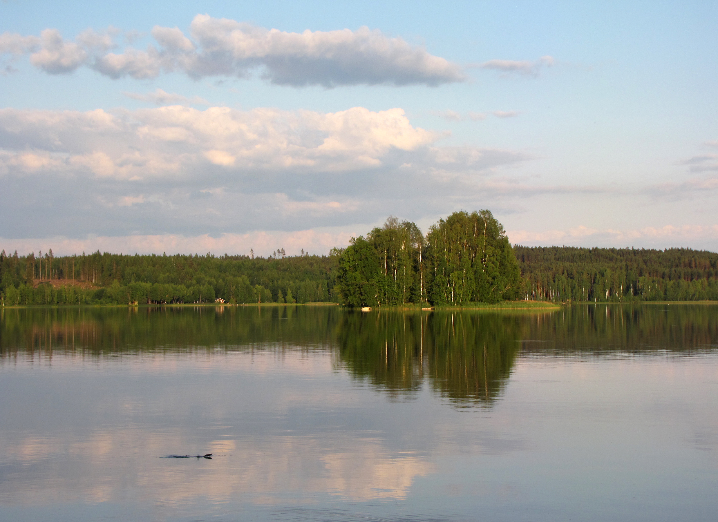 Lake Halkjärvi, Somero, Finland. A small fish jumps through the surface of the water.